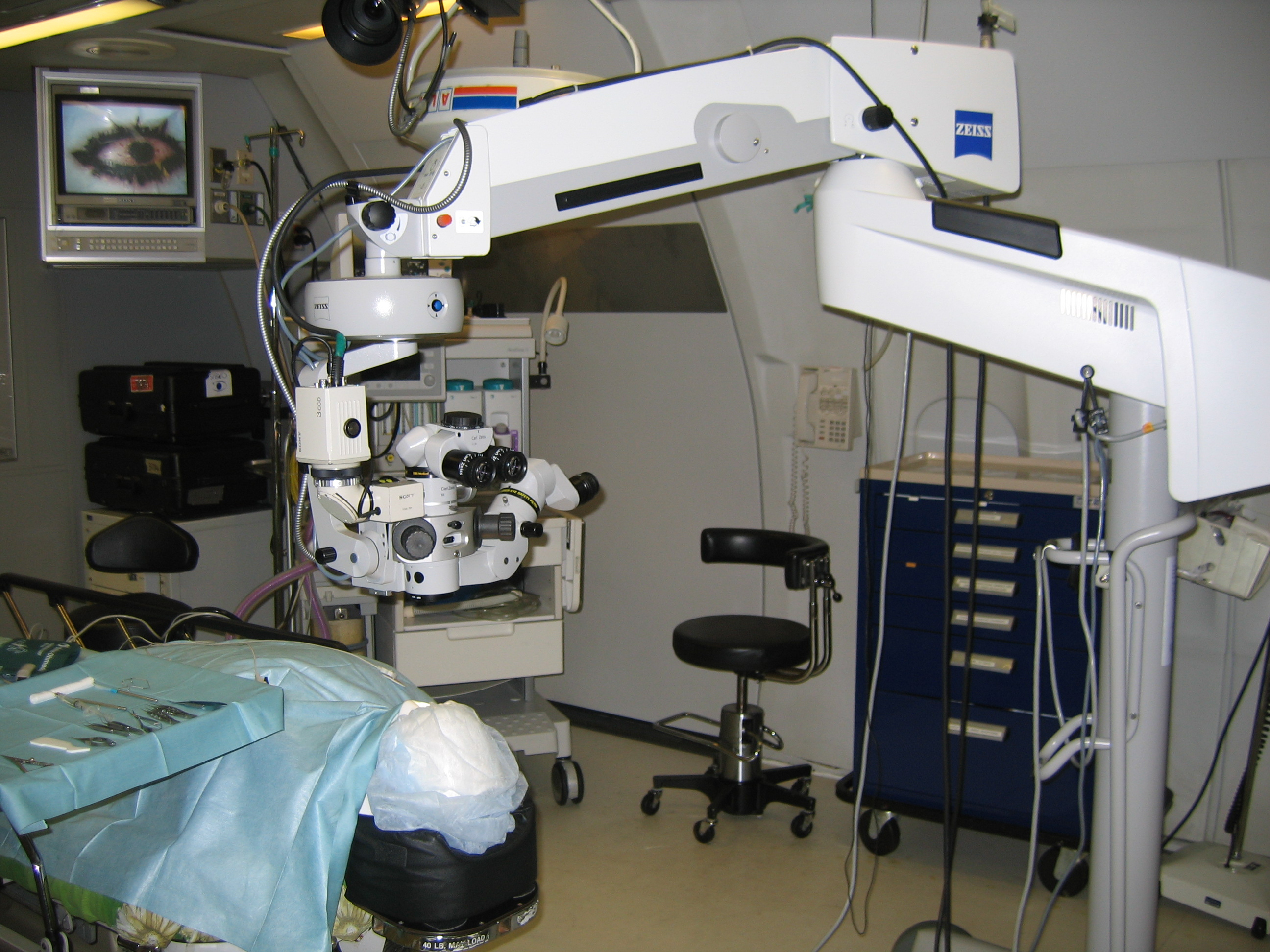 ORBIS flying eye hospital - operating room